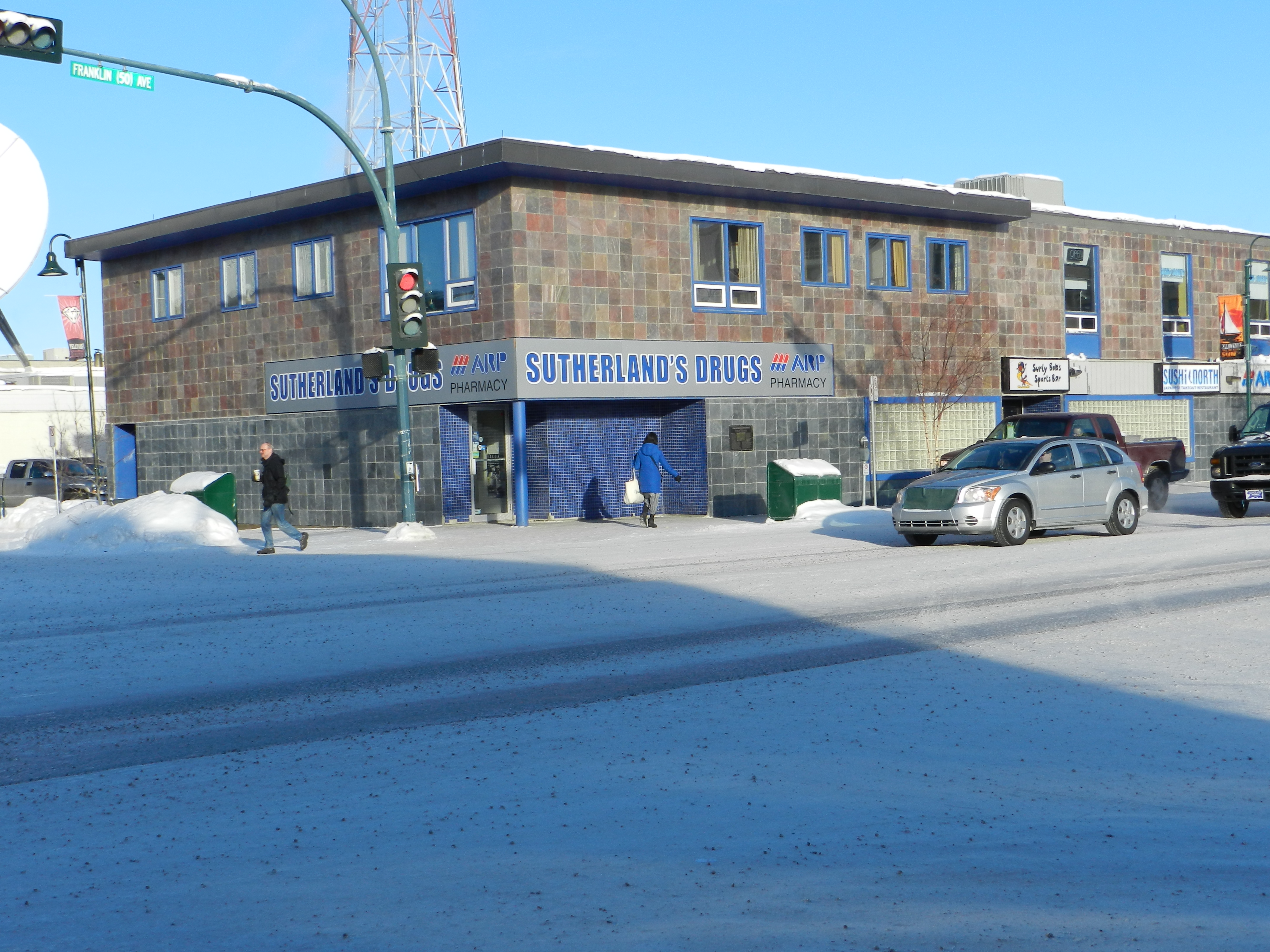 Sutherland's Drugs in Yellowknife